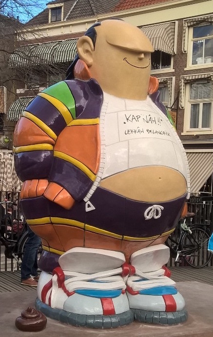 Haagse Harry statue in The Hague